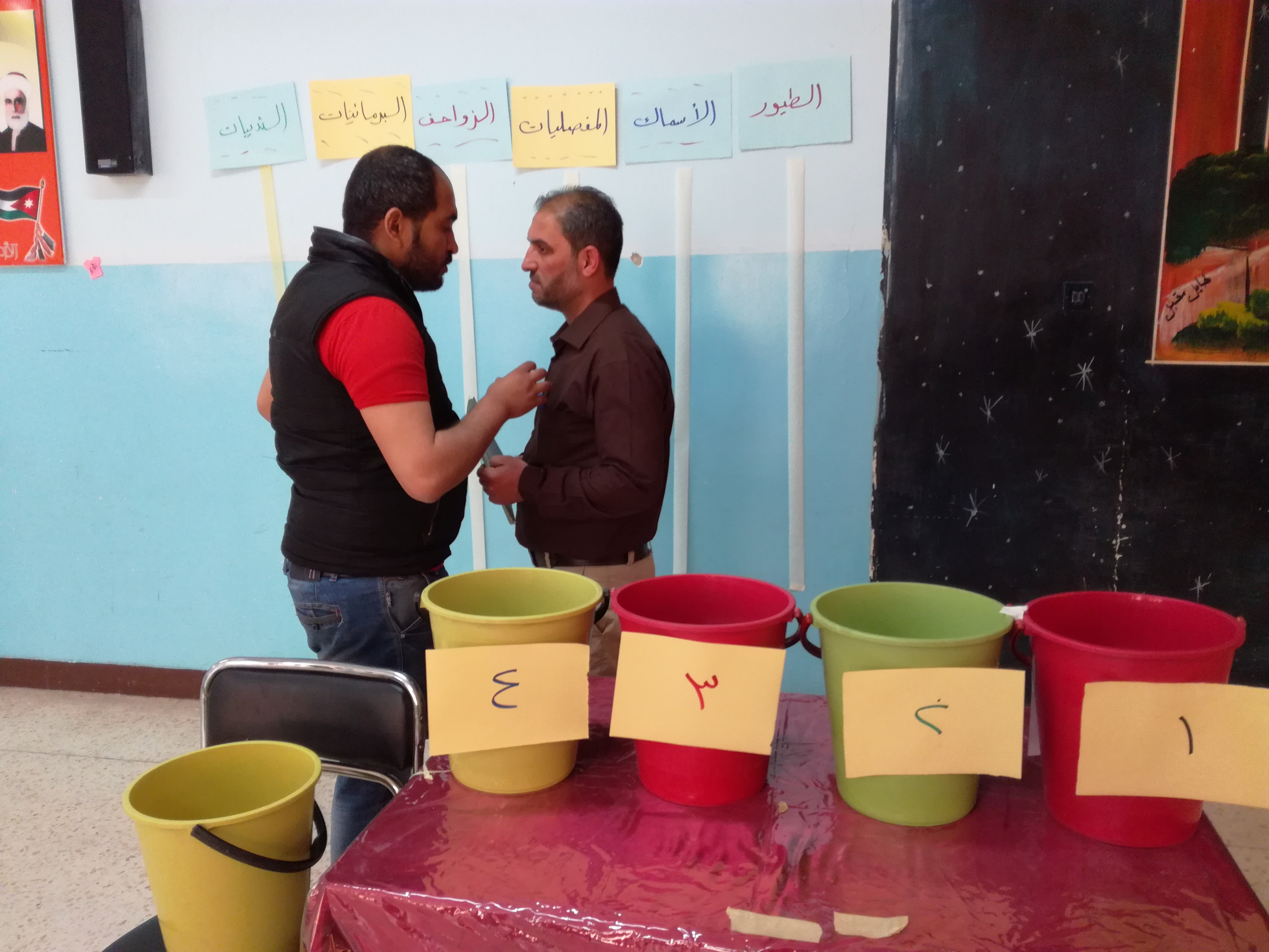 During a workshop for Right to play organization in jordan